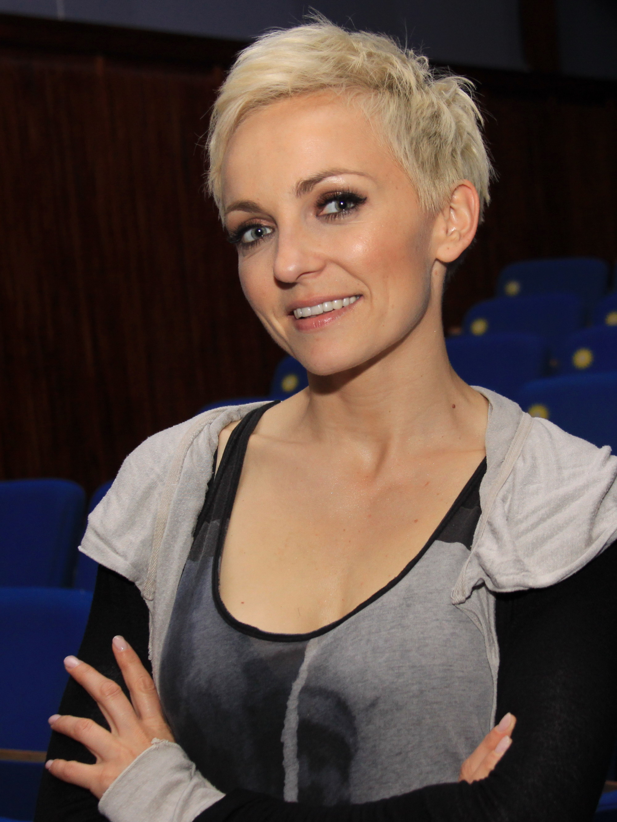 Anna Wyszkoni - Polish singer and songwriter. Busko-Zdrój, 25 April 2013